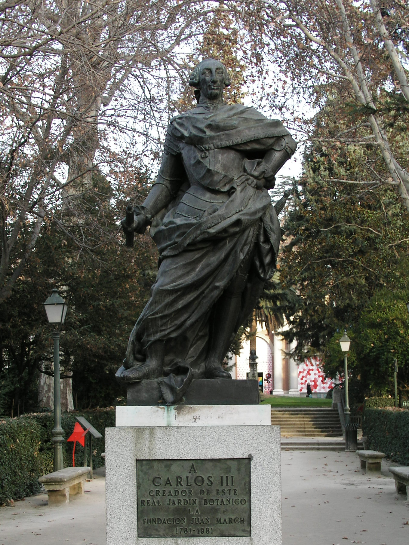 Royal Botanic Garden, Madrid, Spain. Statue of Carlos III.